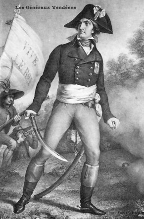 Jean-Nicolas Stofflet - Carte Postale (Coll. Novalis)